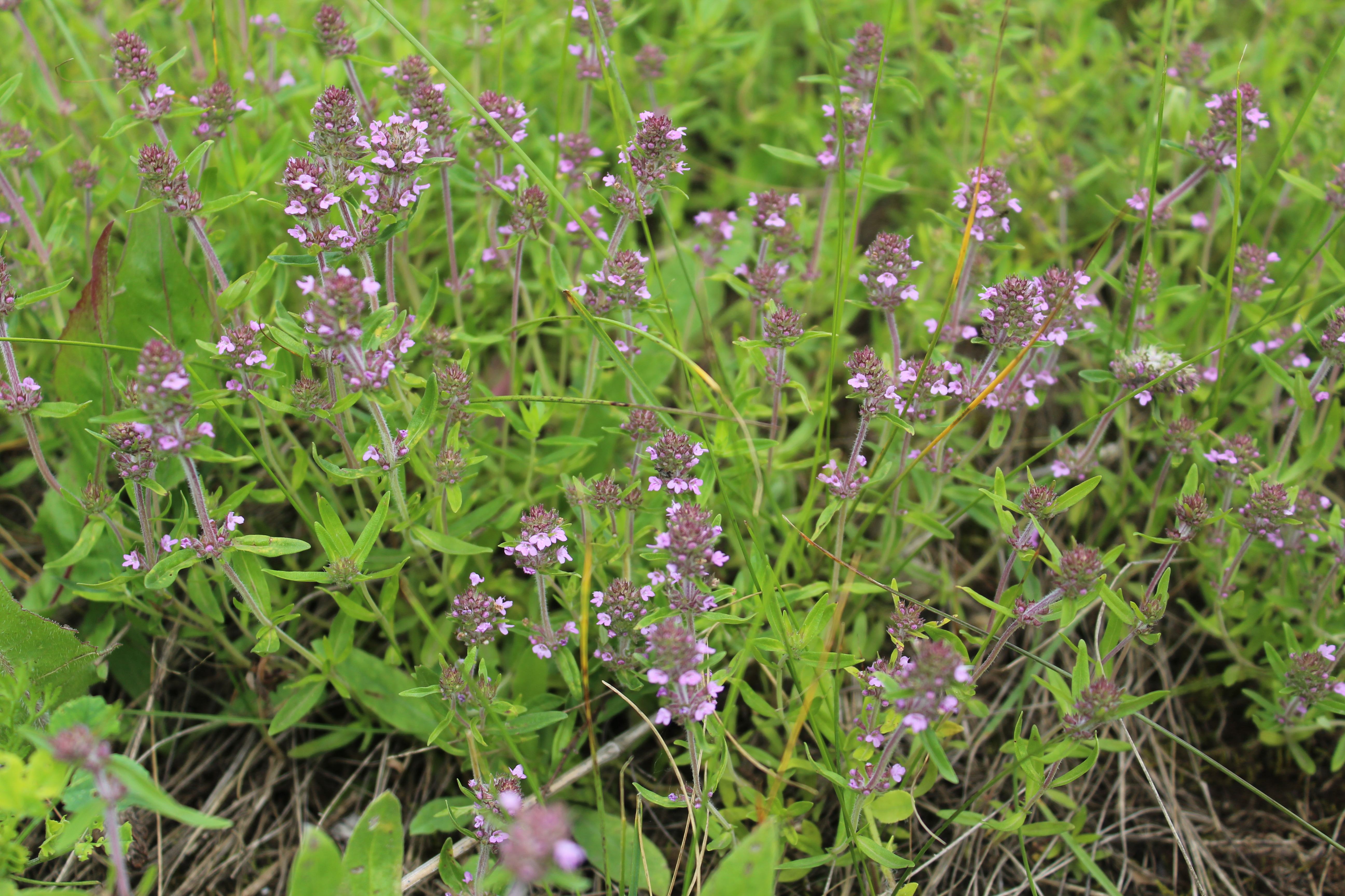 Thymus marschallianus Willd.